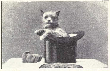 An Affenpinscher circa 1915.